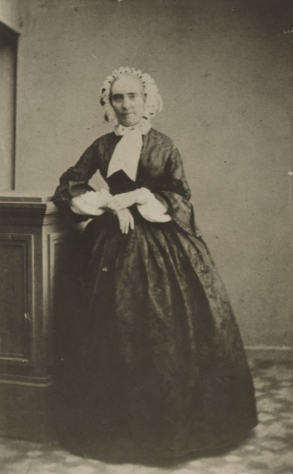 Portrait of Henriette Renan